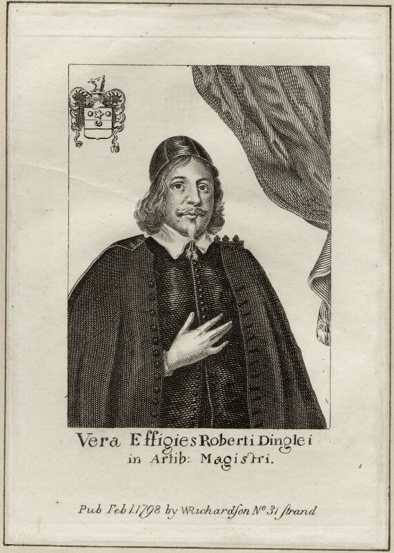 Portrait of Robert Dingley (1619–1660), English Puritan cleric.